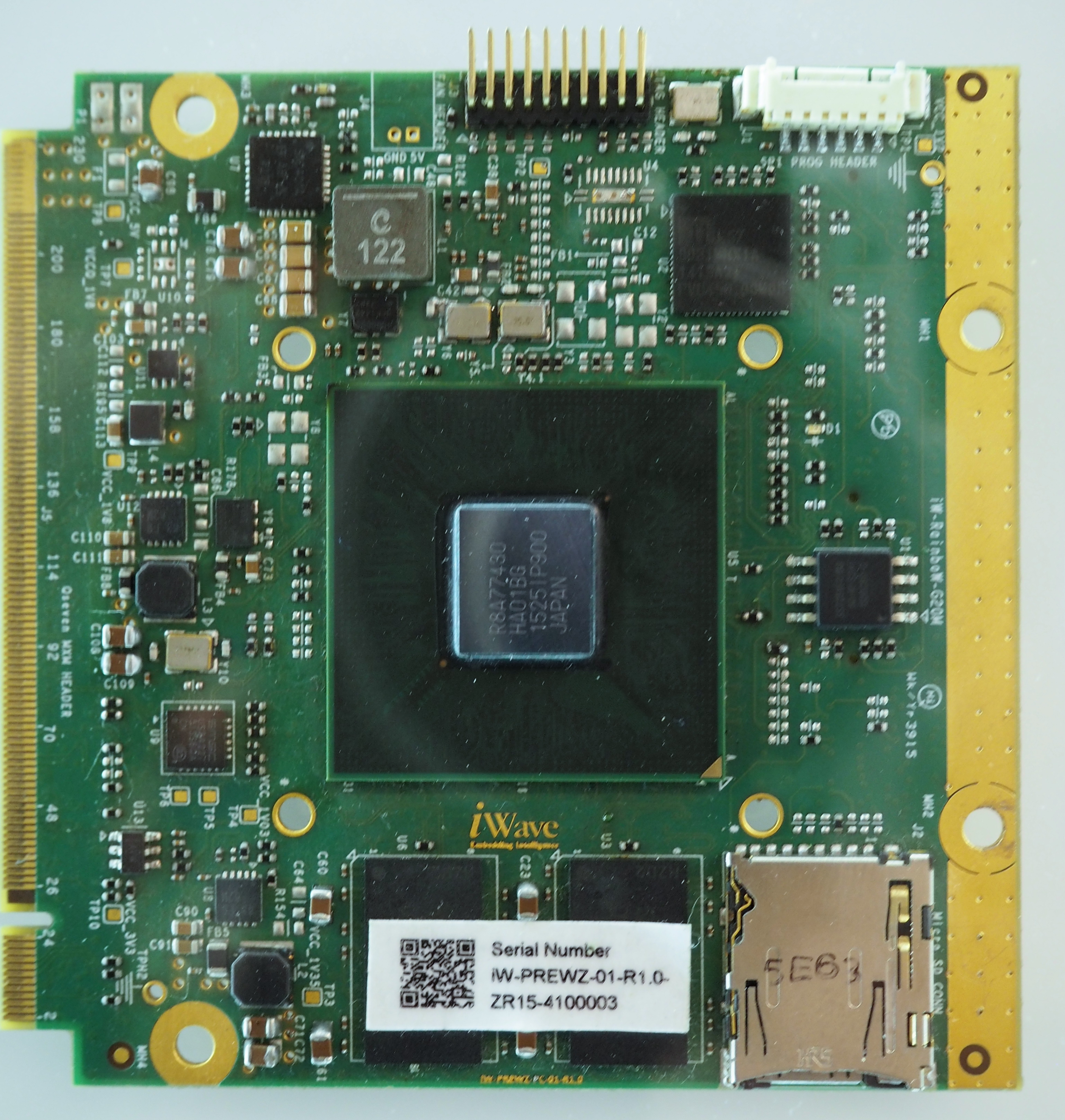 Embedded World fair 2016 in Nuremberg - iWave iW-RainbowW-G20M with Renesas RZ/G1M, ARM Cortex-A15